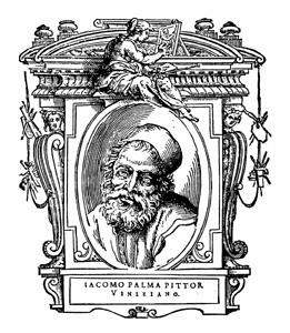 Illustratio from "Le Vite" by Giorgio Vasari, edition of 1568. For the artist portrayed see filename